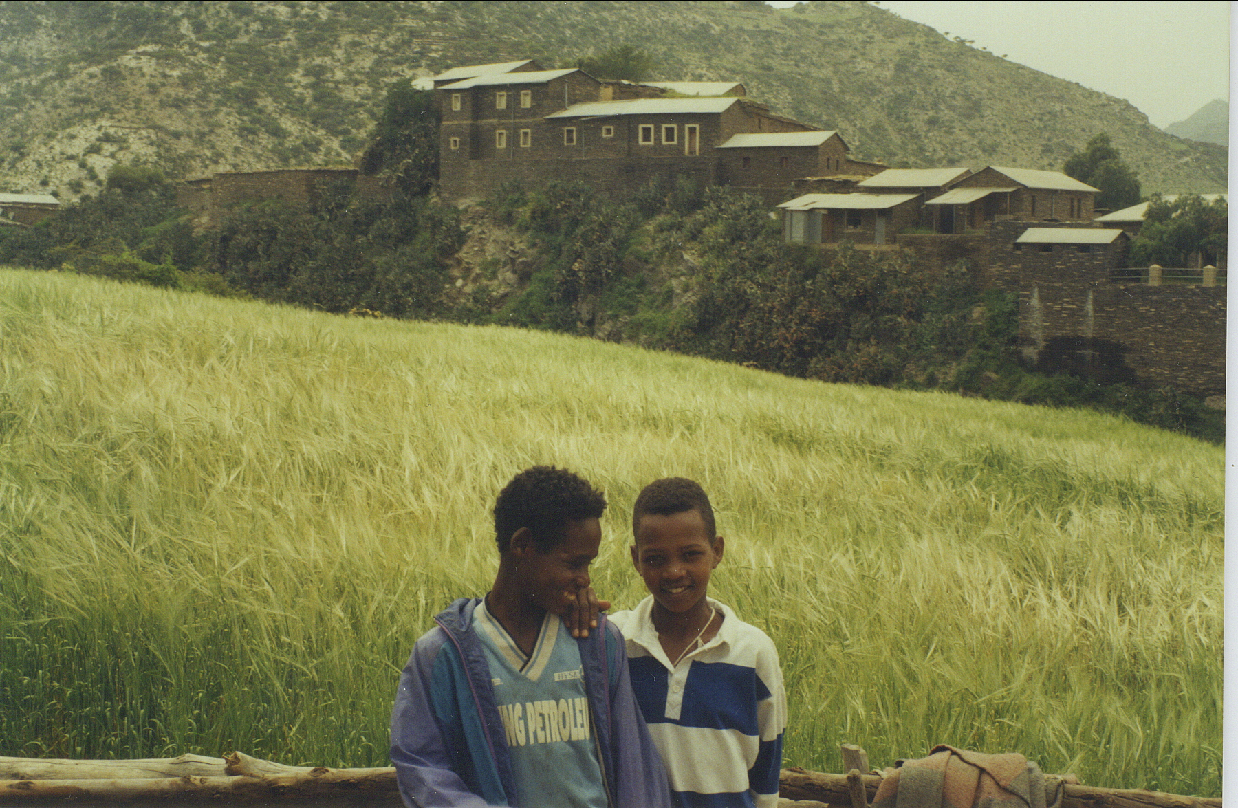 Irob boys in Alitena - scan of own photo